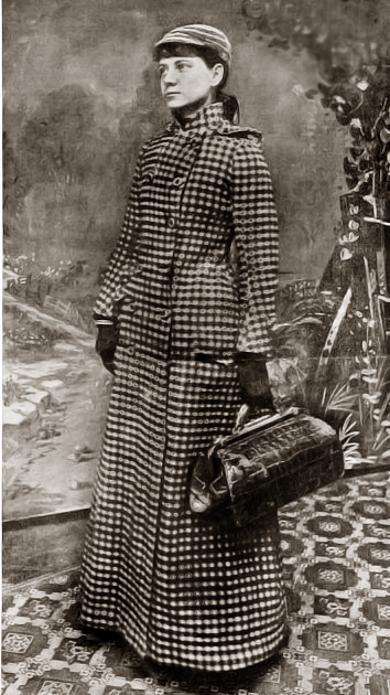 American journalist Nellie Bly, in a publicity photo for her around-the-world voyage. Caption on the original photo reads: "Nellie Bly, The New York WORLD'S correspondent who place a girdle round the earth in 72 days, 6 hours, and 11 minutes."